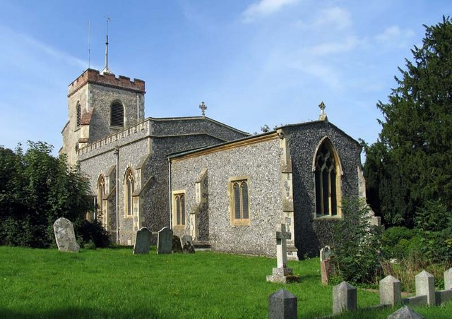 St Mary, Aston, Herts